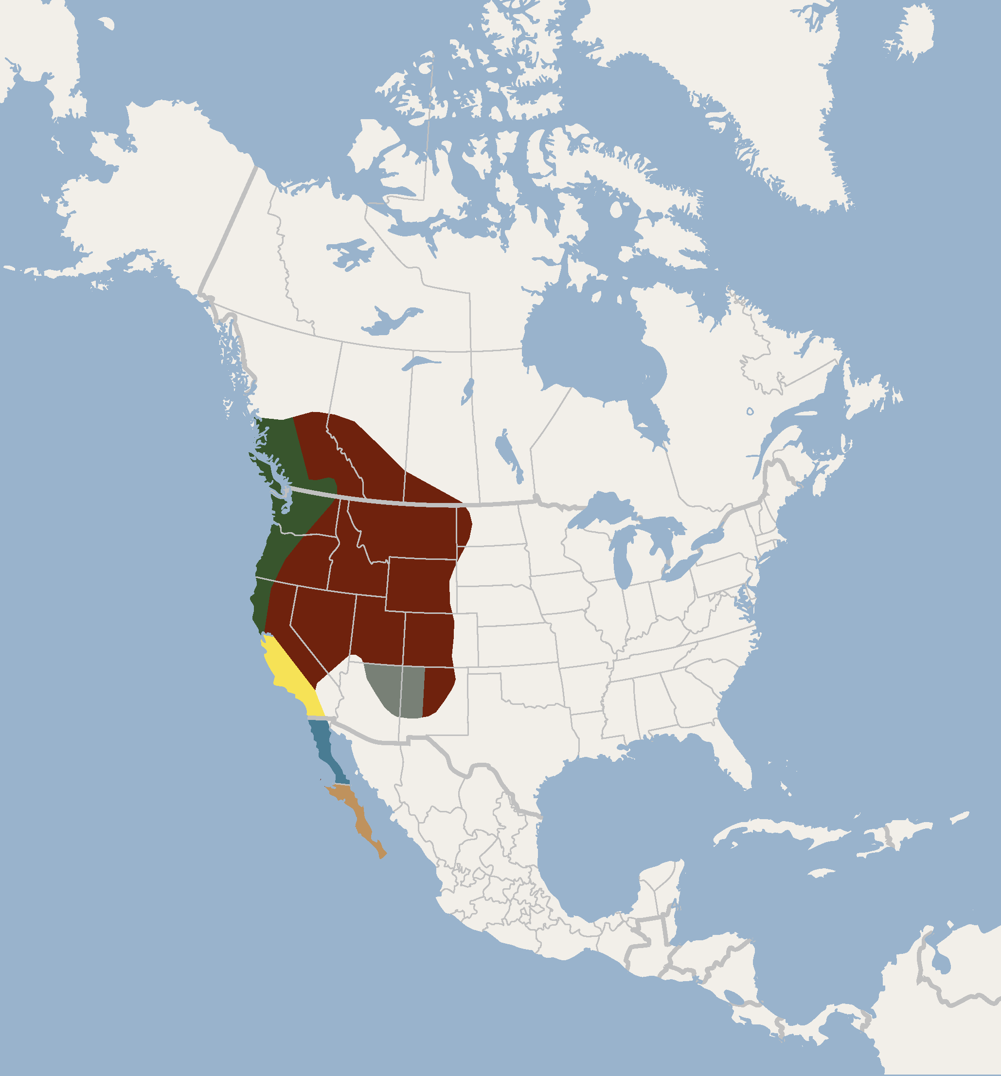 Geographical distribution of Myotis evotis according to Manning & Knox Jones, 1989